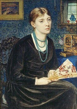 Louisa Baldwin 1868, by Edward Poynter he died 1919.